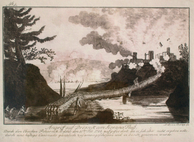 Attack on the castle of Dreznik (Dresnik) at the river Korana in Croatia, 1788. The castle was destroyed by cannon fire and taken by Oberst Peharnik after it refused to surrender.